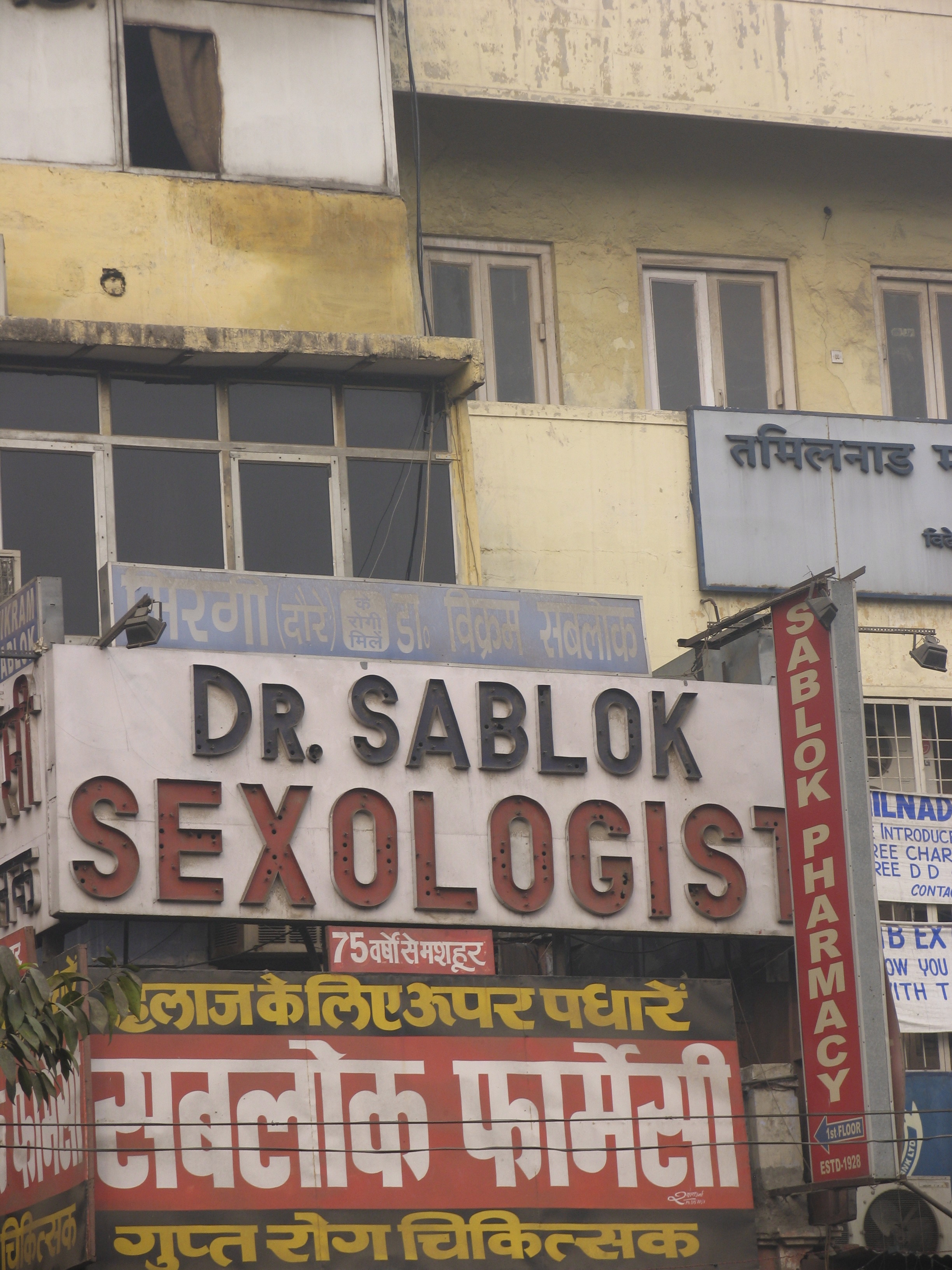 sign advertising the service of a sexolgist in the old city of delhi